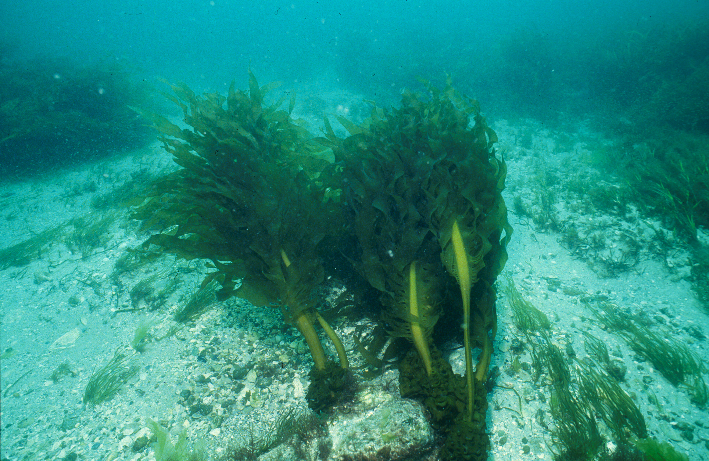 Undaria pinnatifida is a brown seaweed that reaches an overall length of 1-3 m. Undaria is a native of the Japan Sea and the northwest Pacific coasts of Japan and Korea. In Japan, Undaria, known locally as 'wakame', is extensively cultivated as a food plant. Japanese consumption of the alga is around 200,000 tonnes of fresh or dried plant per annum. Undaria is regarded as a pest because it is highly invasive, grows rapidly and has the potential to overgrow and exclude native seaweeds. It was first detected in Australia in 1988 near Triabunna on the east coast of Tasmania. Over the following ten years it spread along 100 kms of the Tasmanian east coast and also to Victoria - the most likely vector being international shipping.